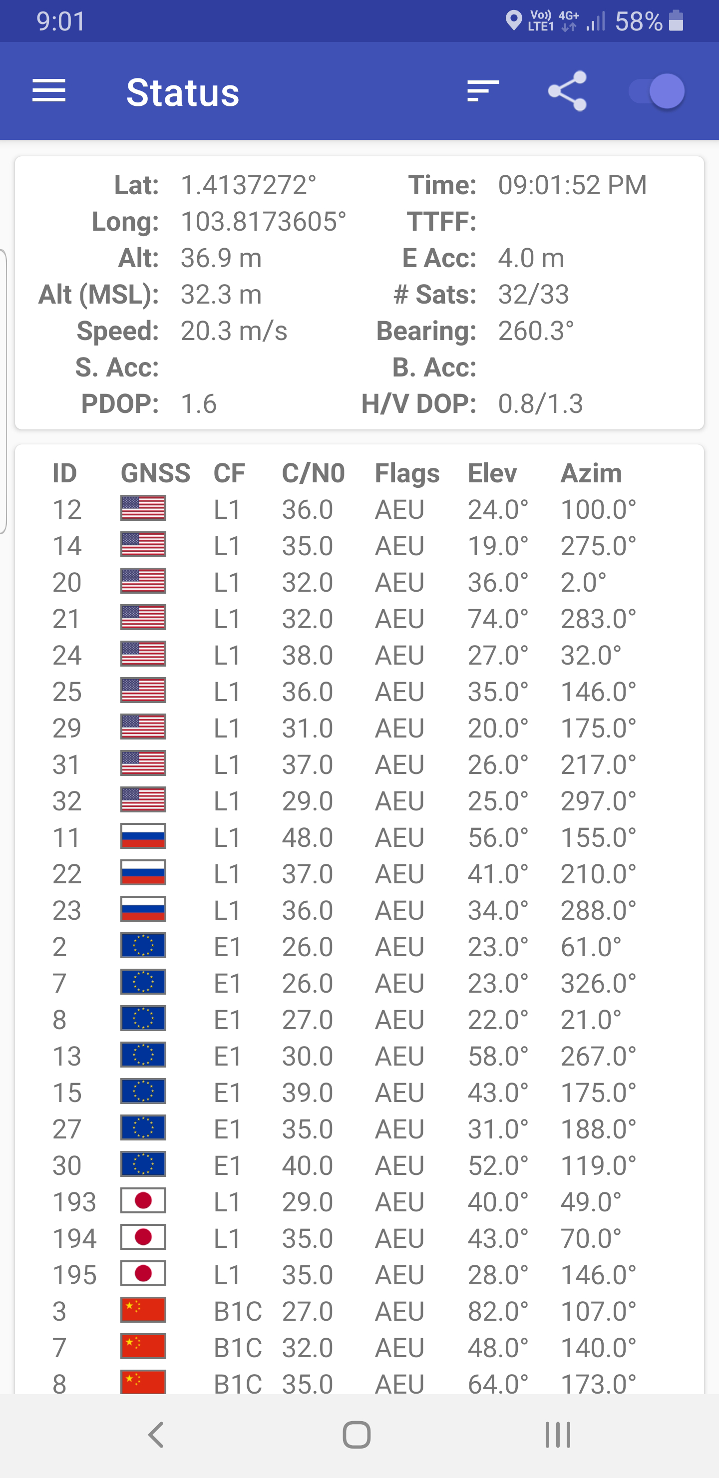 GPSTest on Samsung Galaxy S9+ running Android 9.0 (Pie) showing the available GNSS in August 2019.